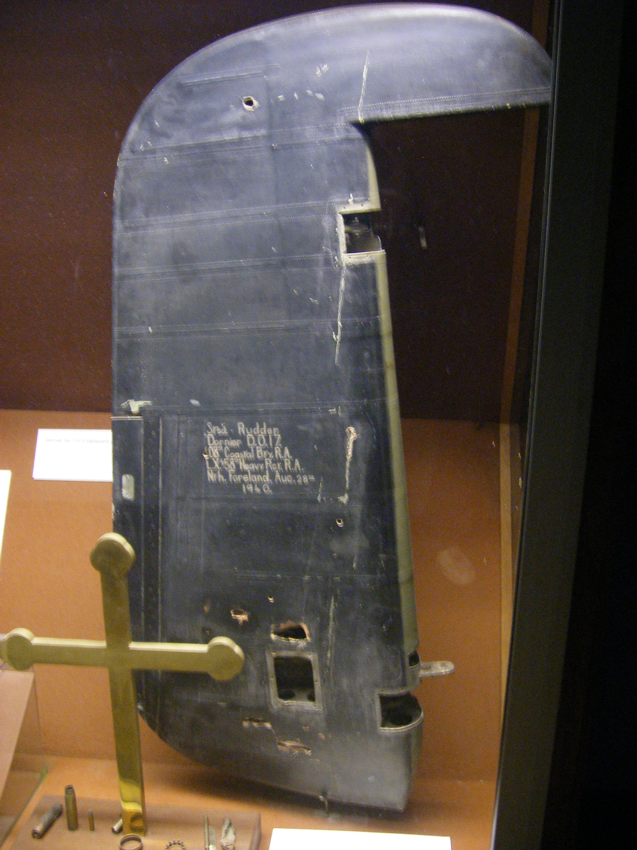 One of the Dornier Do 17s surviving relics. A stabiliser and rudder of a Do 17 shot down on 28 August 1940